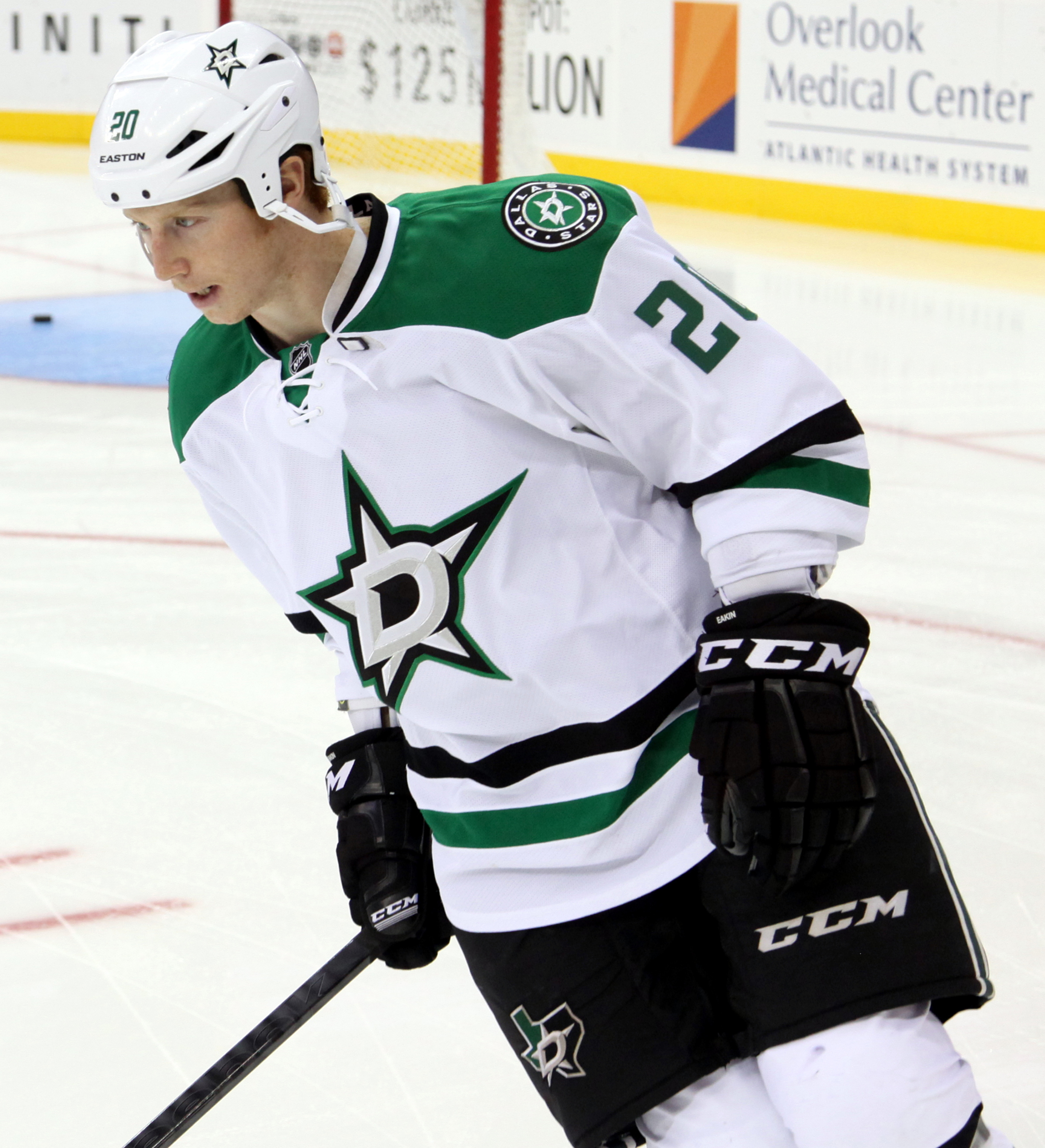 Eakin in October 2014.